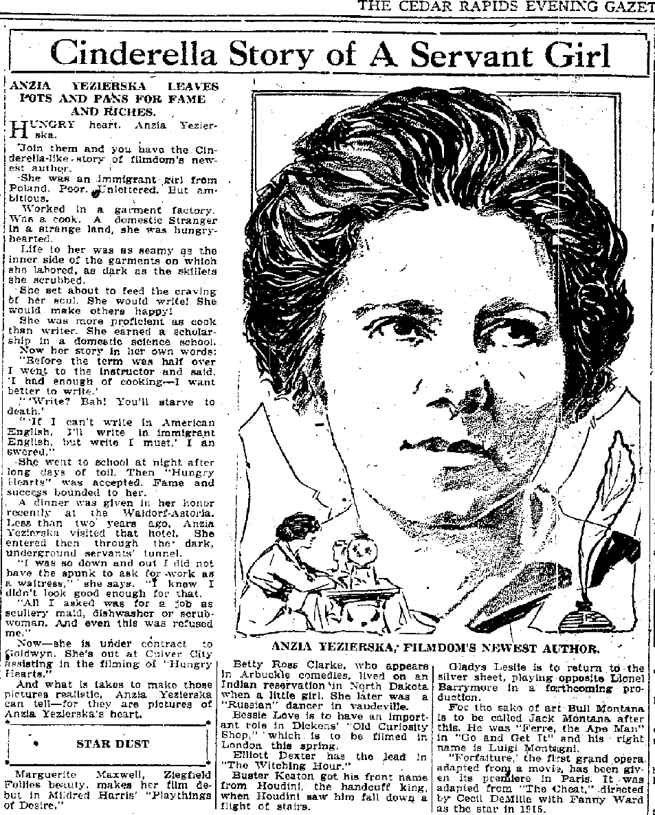 Sketch of the author Anzia Yezierska accompanying an article in the Cedar Rapids Evening Gazette, March 5th, 1921.